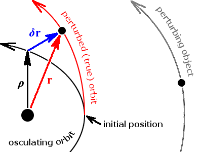 Vector diagram of Encke's Method of perturbation analysis, showing the osculating orbit, the perturbed orbit, and a perturbing body.